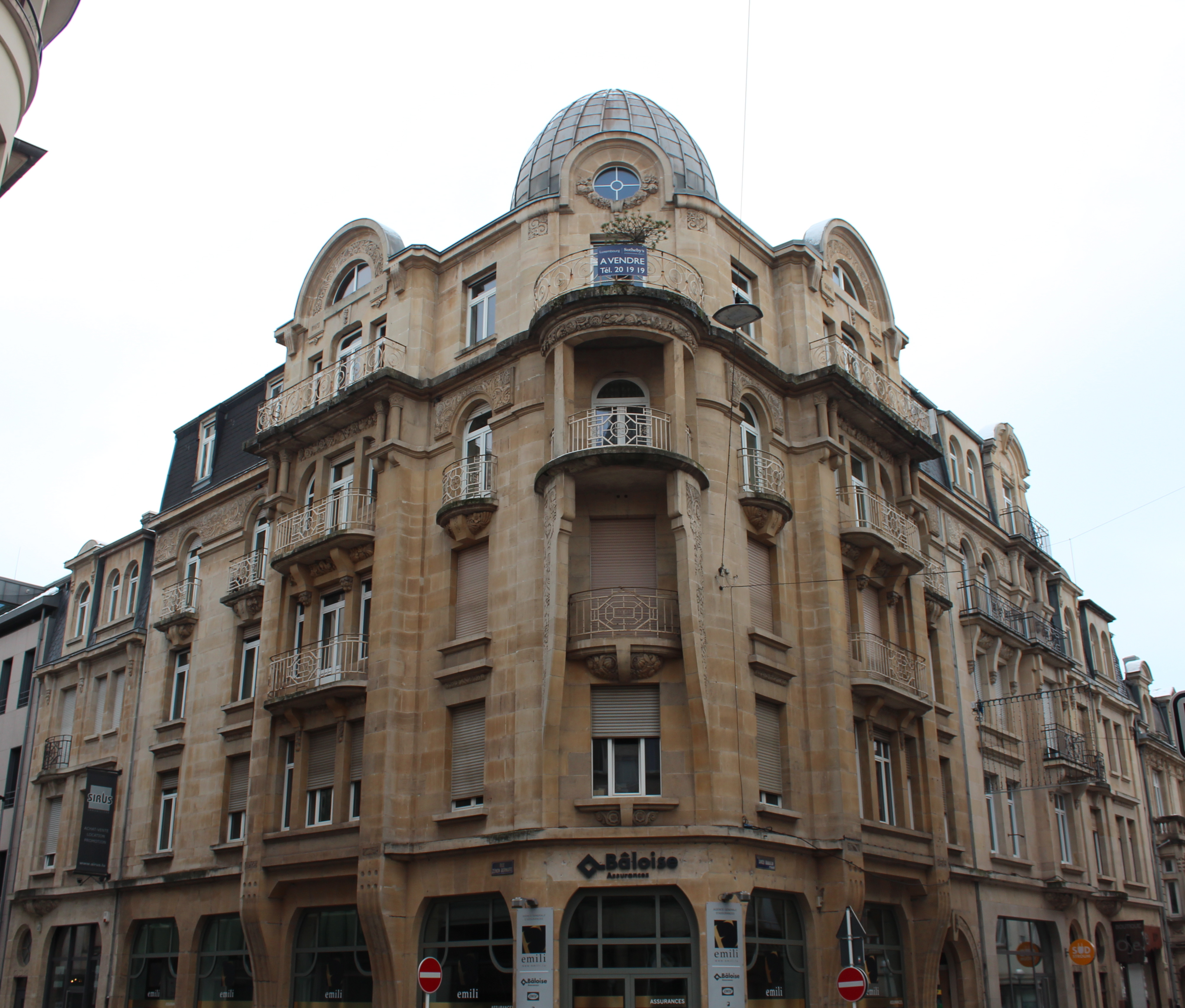 Former Hôtel du Parc in Esch-sur-Alzette, located at the corner of rue Xavier Brasseur and rue Zénon Bernard. Architect: Louis Rossi (Hotel plus adjacant buildings)